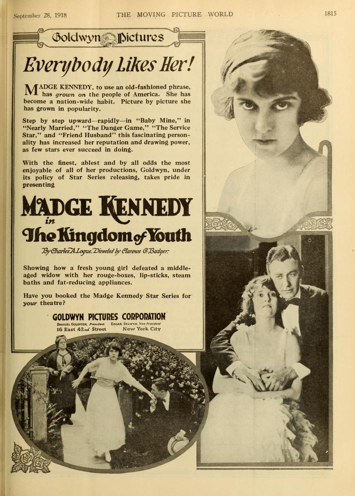 Advertisement in Moving Picture World for the American comedy drama film The Kingdom of Youth (1918).